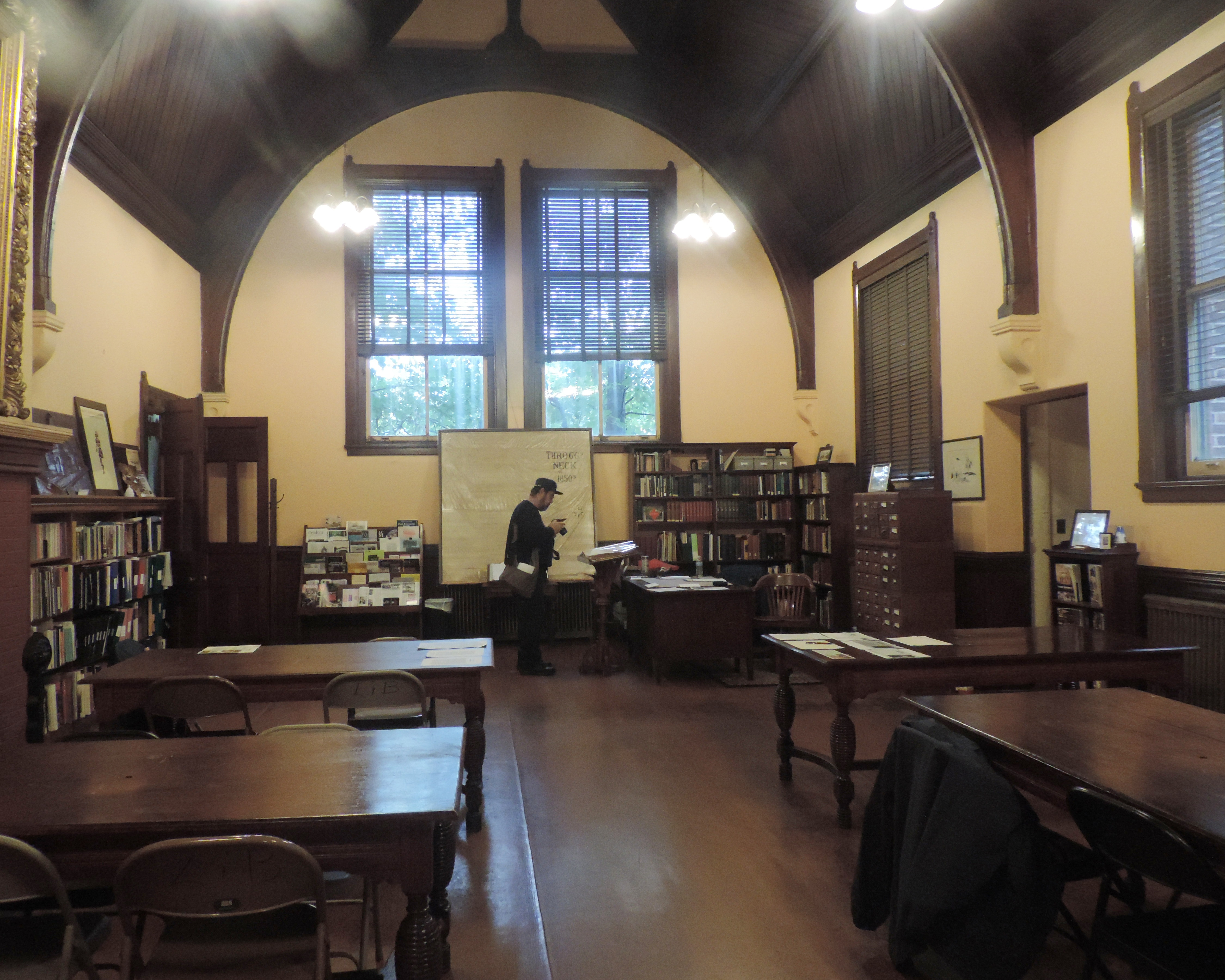 Looking east at reading room.